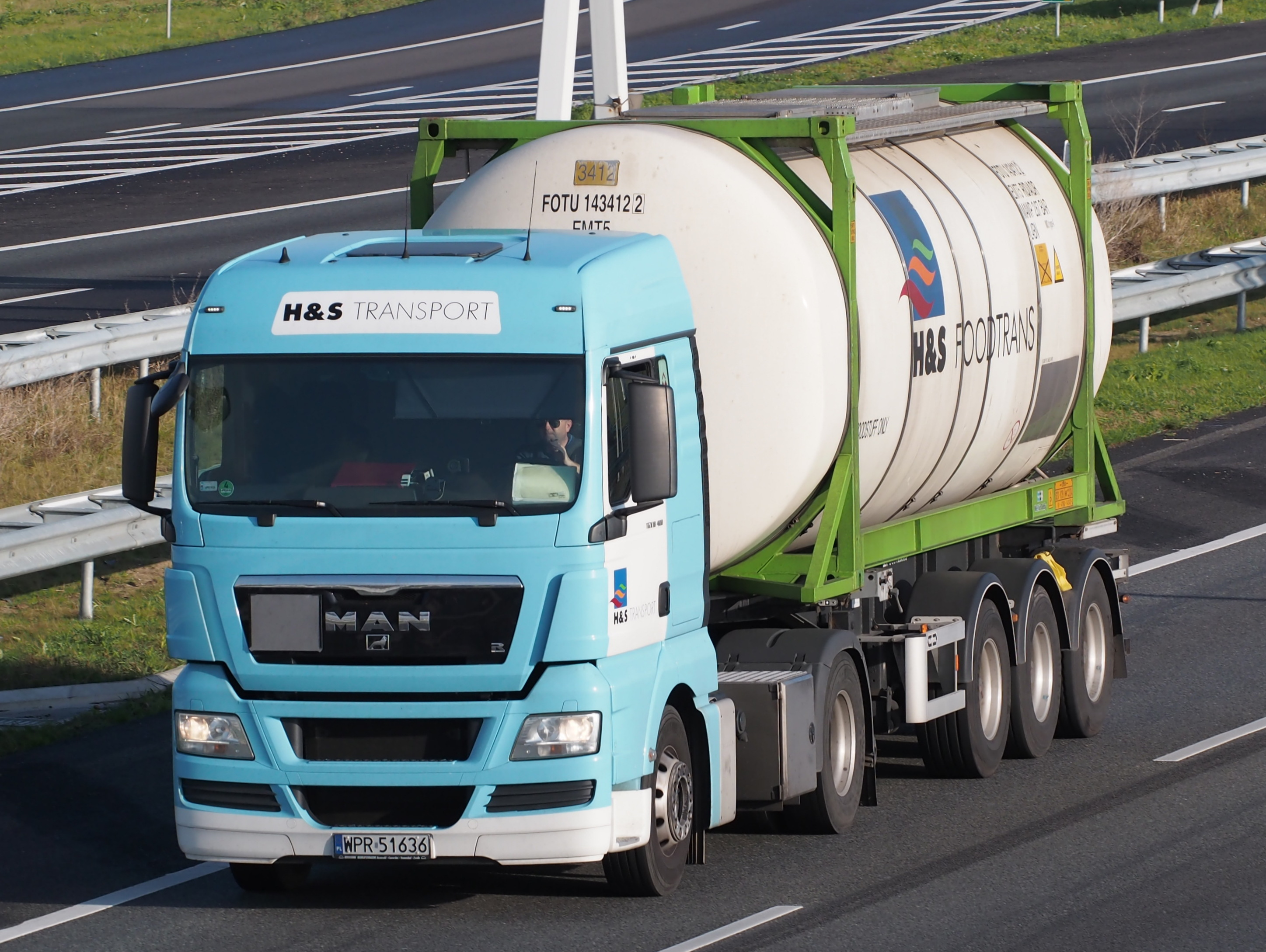 Photographed on the A4 near Hoofddorp, the Netherlands.